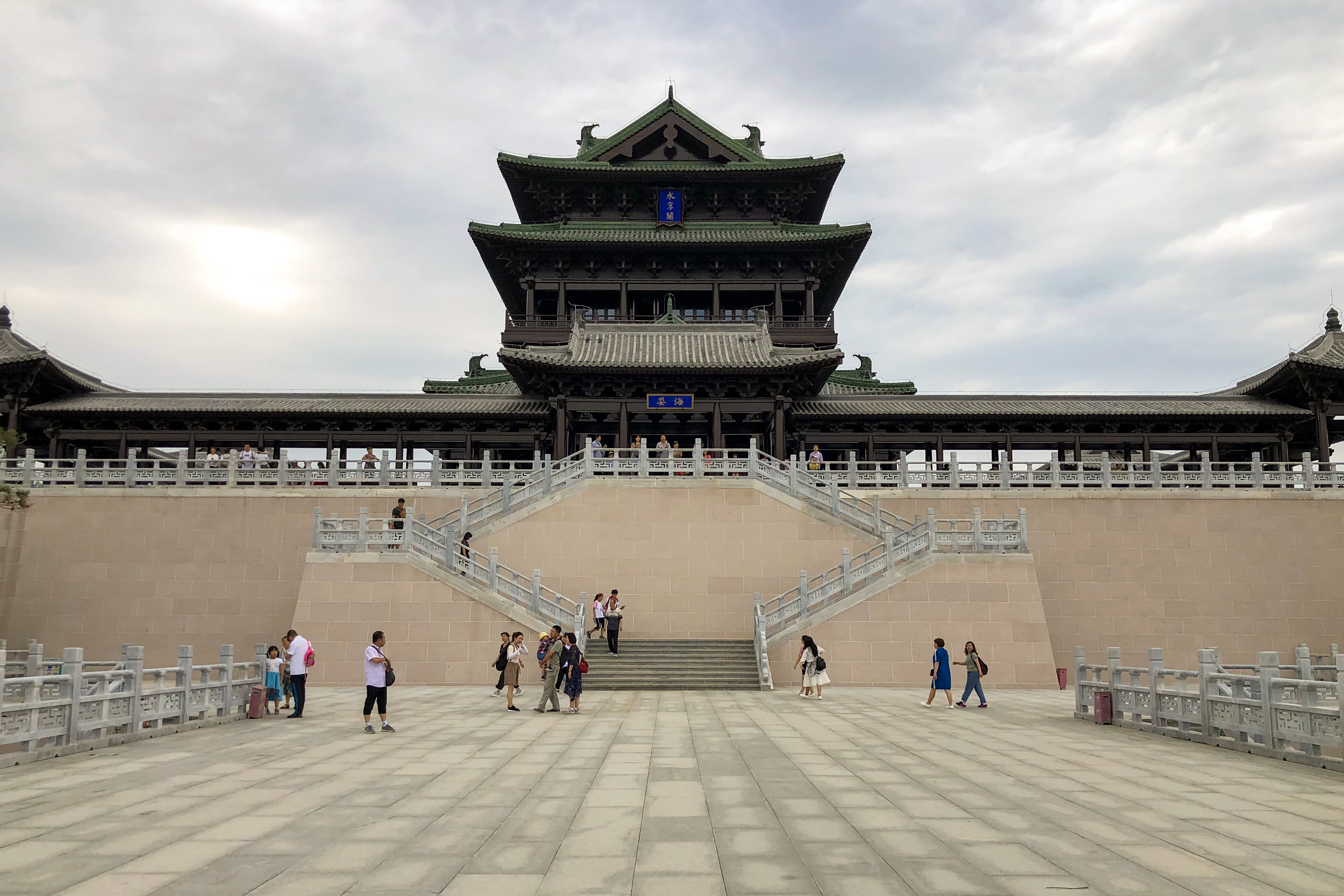 Yongning Pavilion is newly built on a new hill for the Expo 2019.